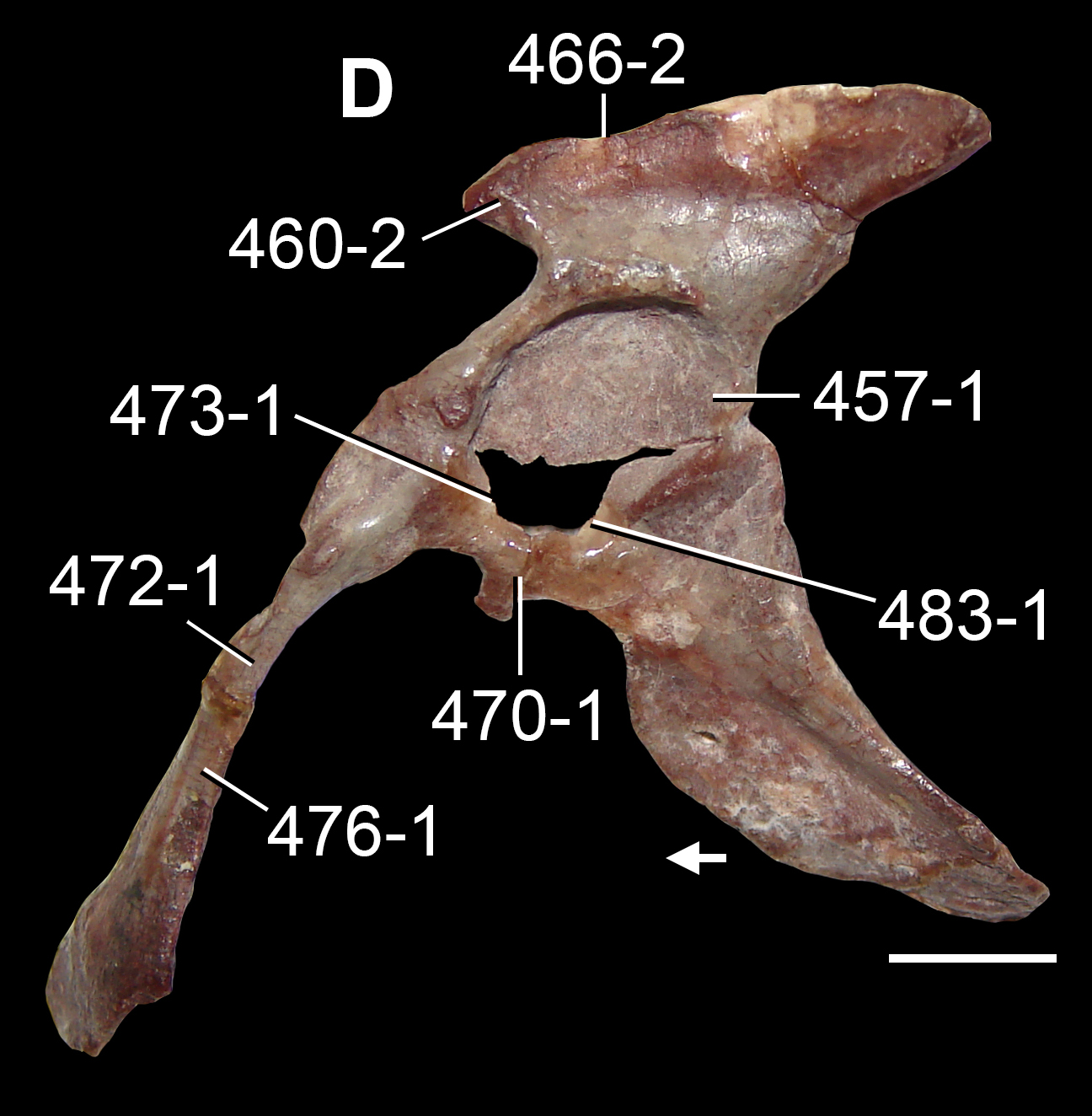 The pelvis (hip) of Marasuchus lilloensis. This is a reversed view of the right hemipelvis of specimen PVL 3870. Arrow indicates anterior direction and scale bar equals 5 mm. Numbers indicate character states scored in the data matrix. Character state scores = 457-1: Acetabular antitrochanter present. 460-2: Preacetabular process of the ilium present, longer than 2/3 of its height, and not extending beyond the front edge of the pubic peduncle. 466-2: Concave dorsal margin of the iliac blade. 470-1: Pubis-ischium contact present and reduced to a thin proximal contact. 472-1: Total length of the pubis 3.94-4.87 times longer than the anteroposterior length of the acetabulum. 473-1: Recessed anterior and posterior portions of the acetabular margin of the pubis. 476-1: Rod-like, posteriorly curved pubic shaft. 483-1: The ischium's articular surfaces with the ilium and pubis are separated by a fossa.